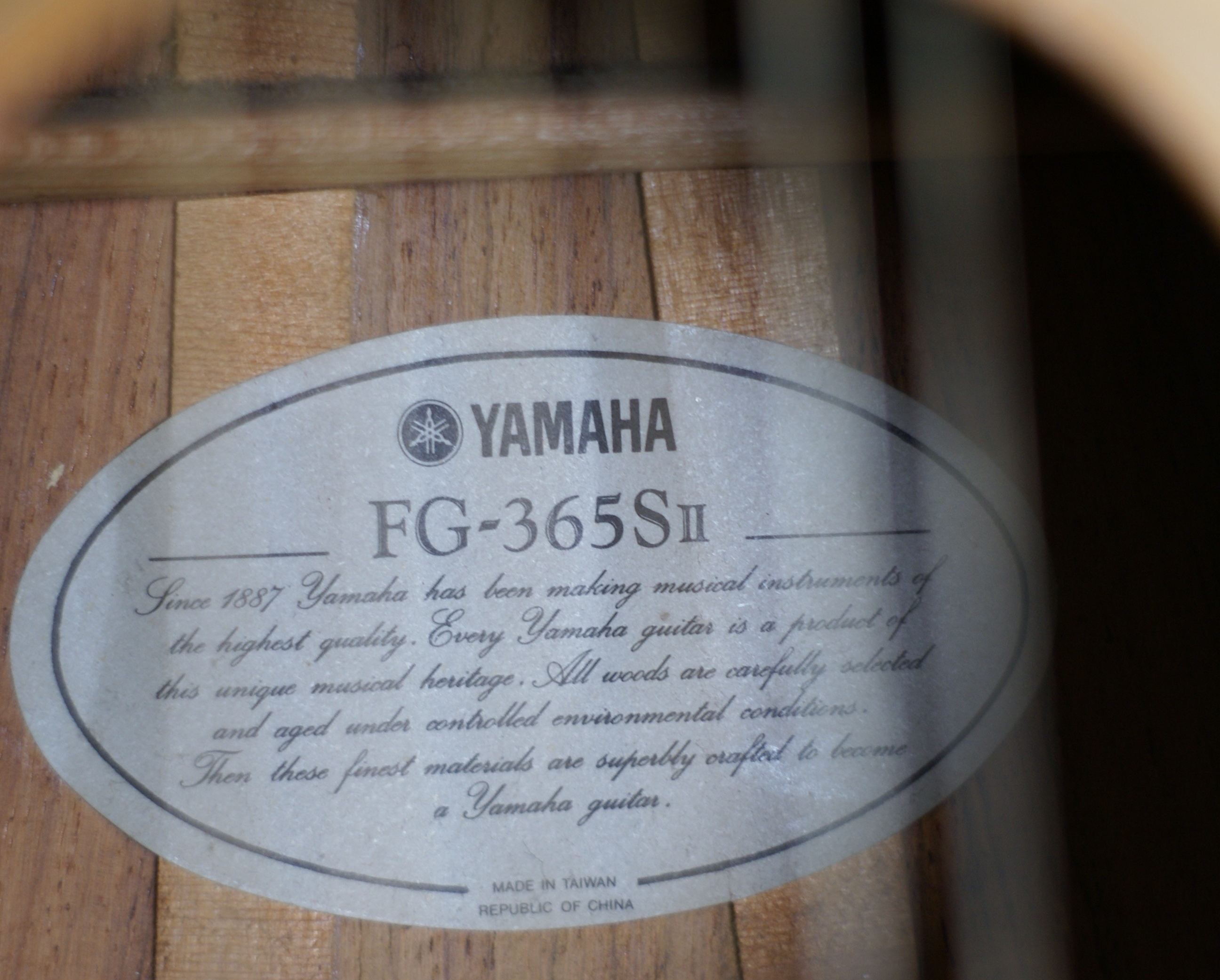 Yamaha FG-365S Acoustic Guitar